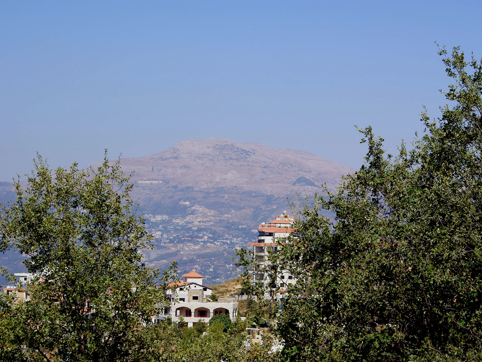 Majestic mountain that i don't know its name